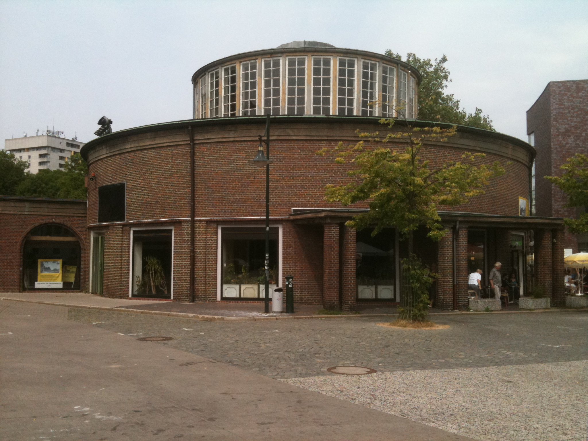 The Delmenhorst Markthalle